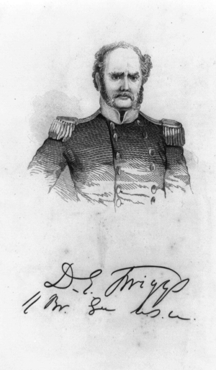 Title: David Emanuel Twiggs, half-length portrait, facing right Abstract/medium: 1 print : engraving.